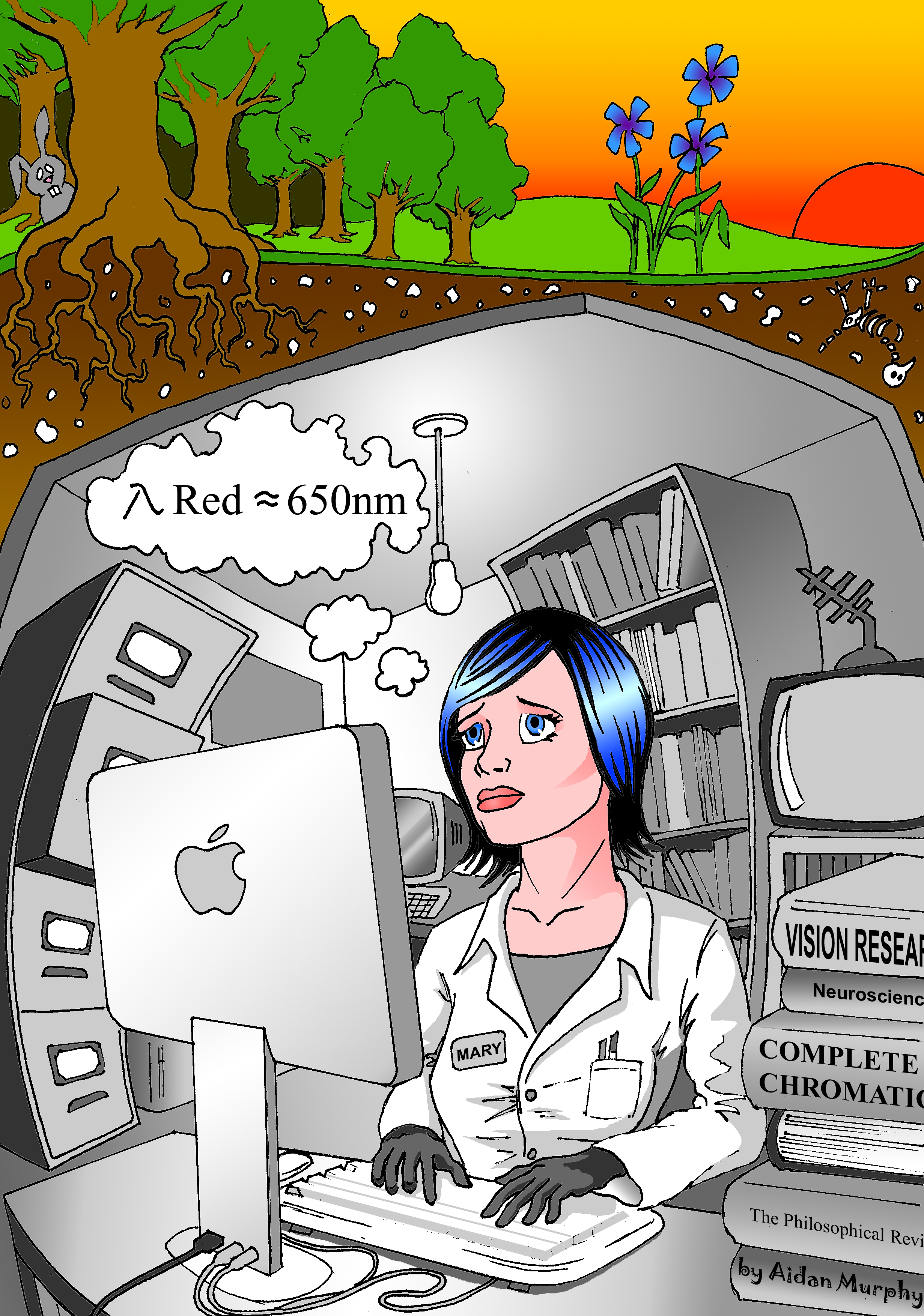 An illustration of the 'Mary's room' thought experiment devised by the philosopher Frank Jackson in his article "Epiphenomenal Qualia" (1982) and extended in "What Mary Didn't Know" (1986).